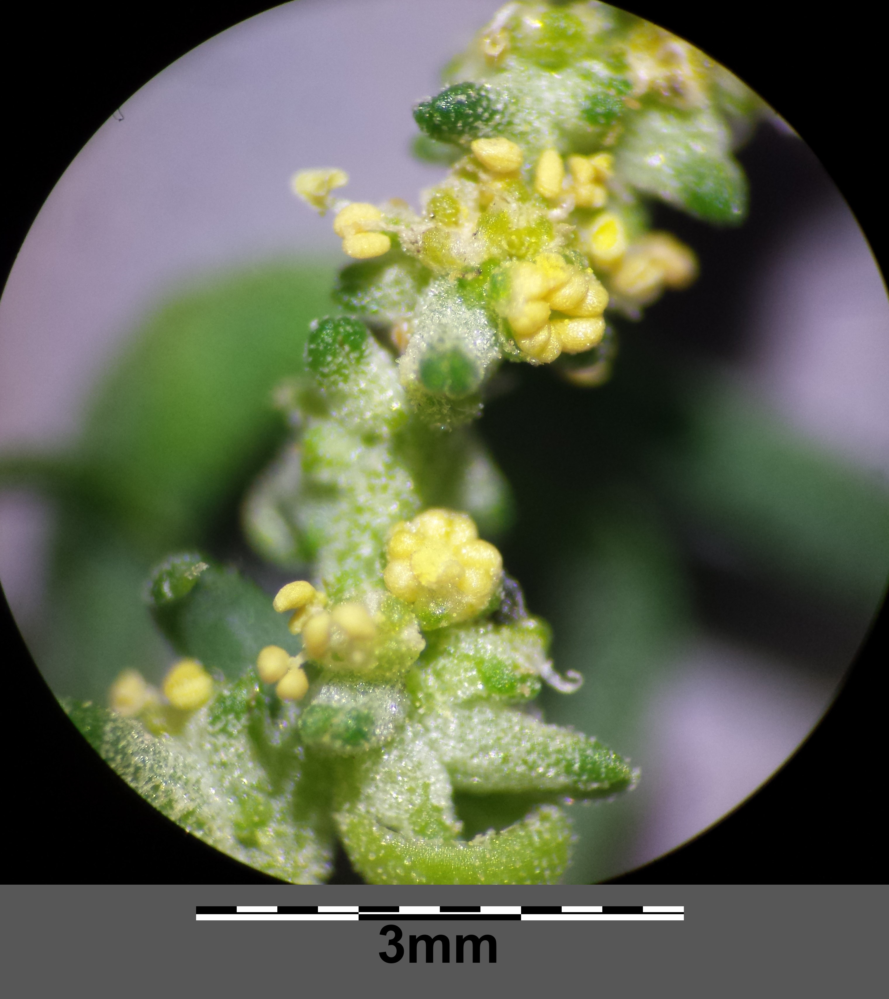 Inflorescence (detail) Taxonym: Atriplex oblongifolia ss Fischer et al. EfÖLS 2008 ISBN 978-3-85474-187-9 Location: Schwarzlackenau, Vienna-Floridsdorf - ca. 160 m a.s.l. Habitat: ruderal, dry meadows